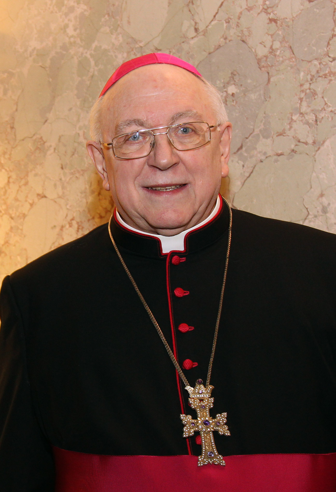 Archbishop Peter Zurbriggen, the Apostolic Nuncio to Austria.